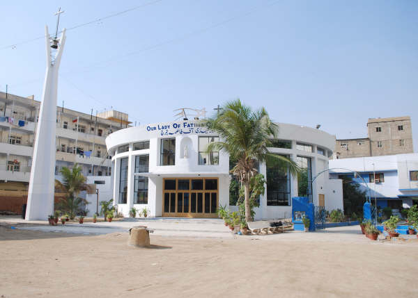 Display of Our Lady of Fatima Church in Karachi